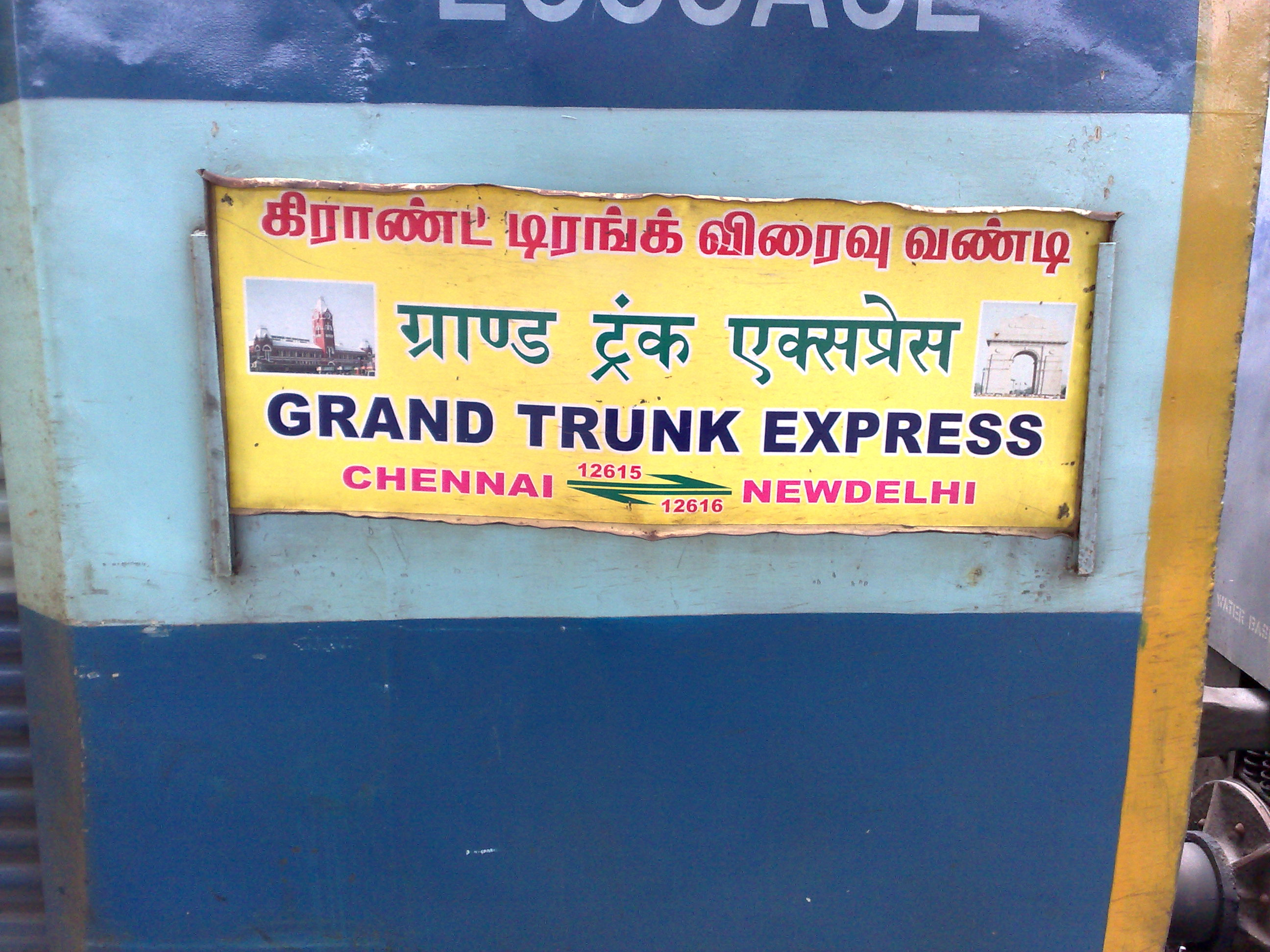 G.T Express Trainboard 1